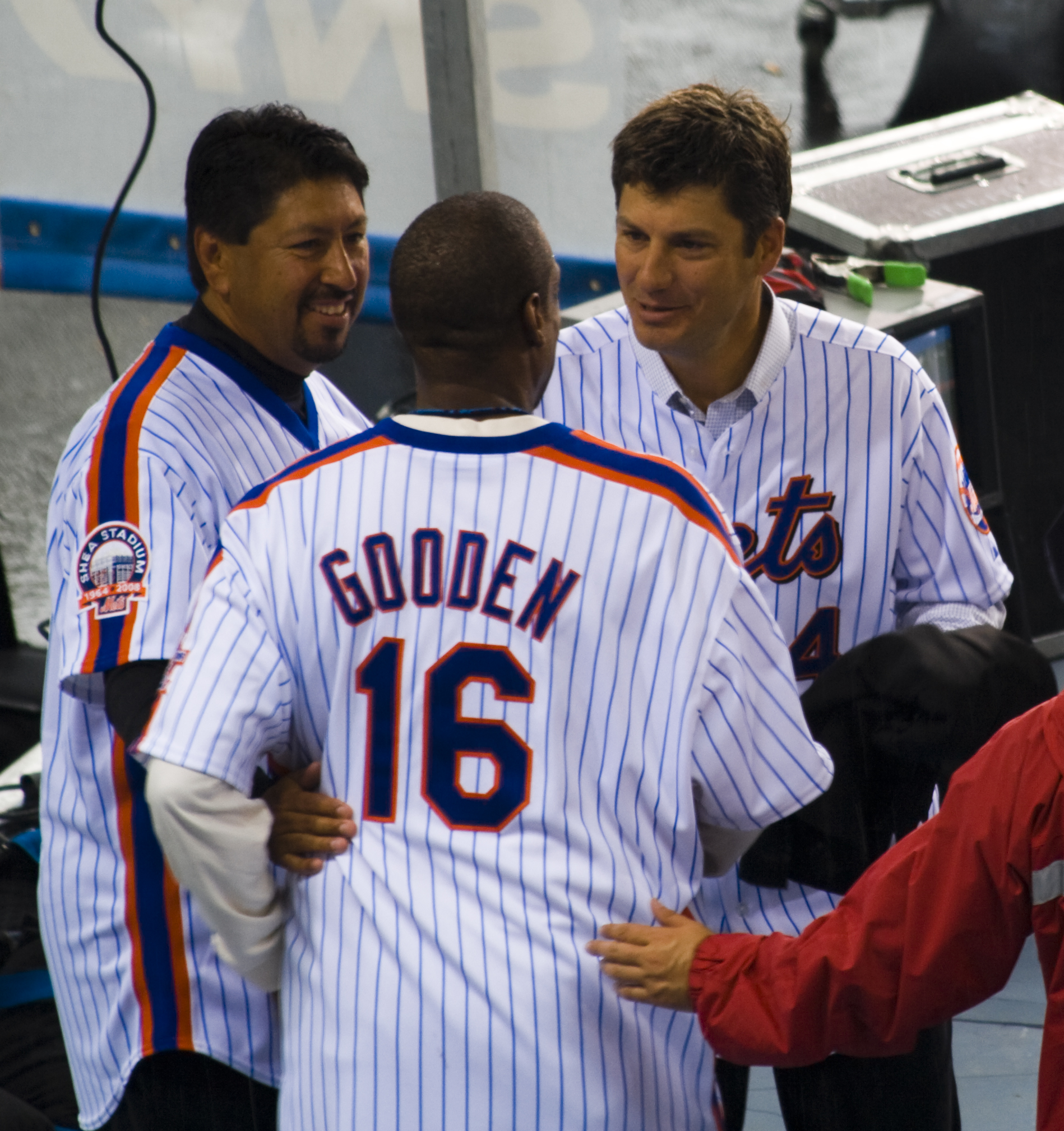 Jesse Orosco Dwight Gooden and Robin Ventura